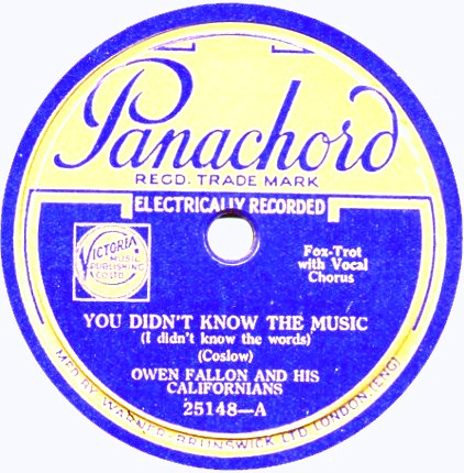 A recod of You Didn't Know The Music (And I Din't Know The Words, by Owen Fallon and his Californians; issued by english label Panachord Records